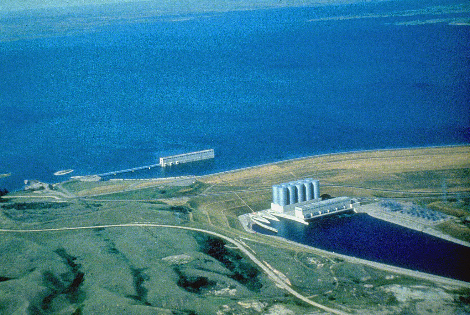 Garrison Dam on the Missouri River near Pick City, North Dakota, USA.